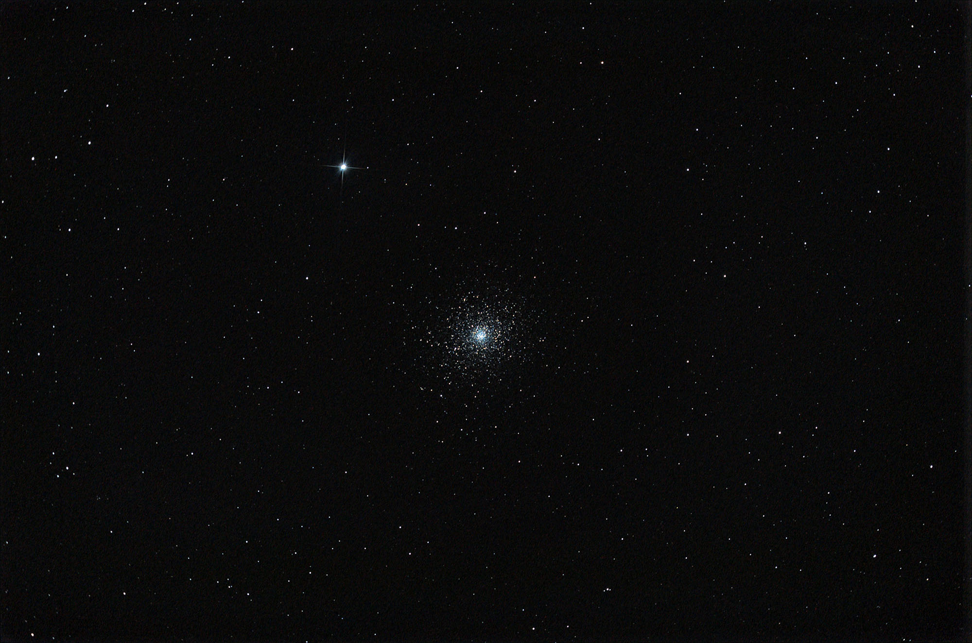 An armature photography of Messier 5 taken with a Nikon D300 DSLR.